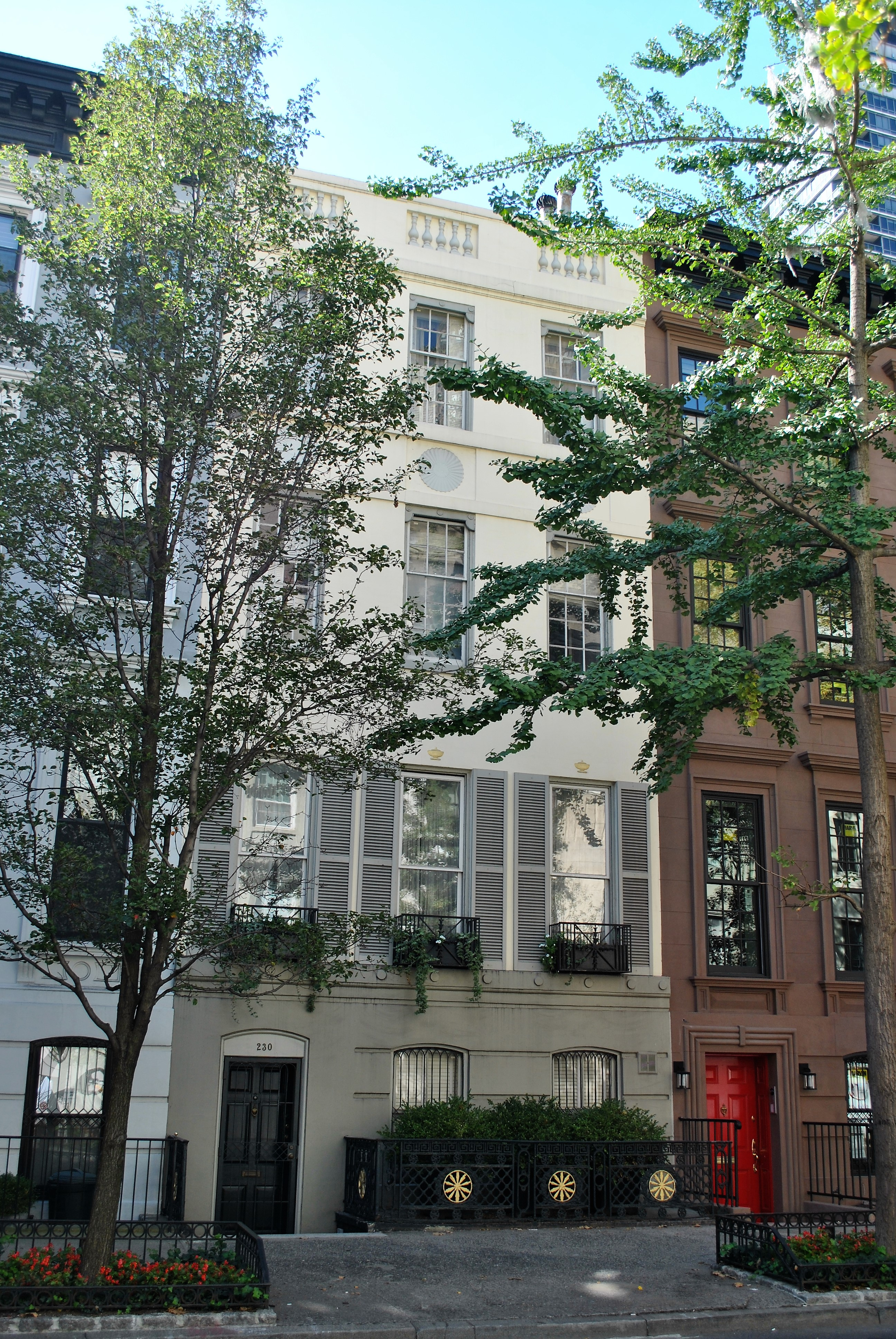 Image originally published in Queer Places: Retracing the Steps of LGBTQ people around the World Authored by Elisa Rolle